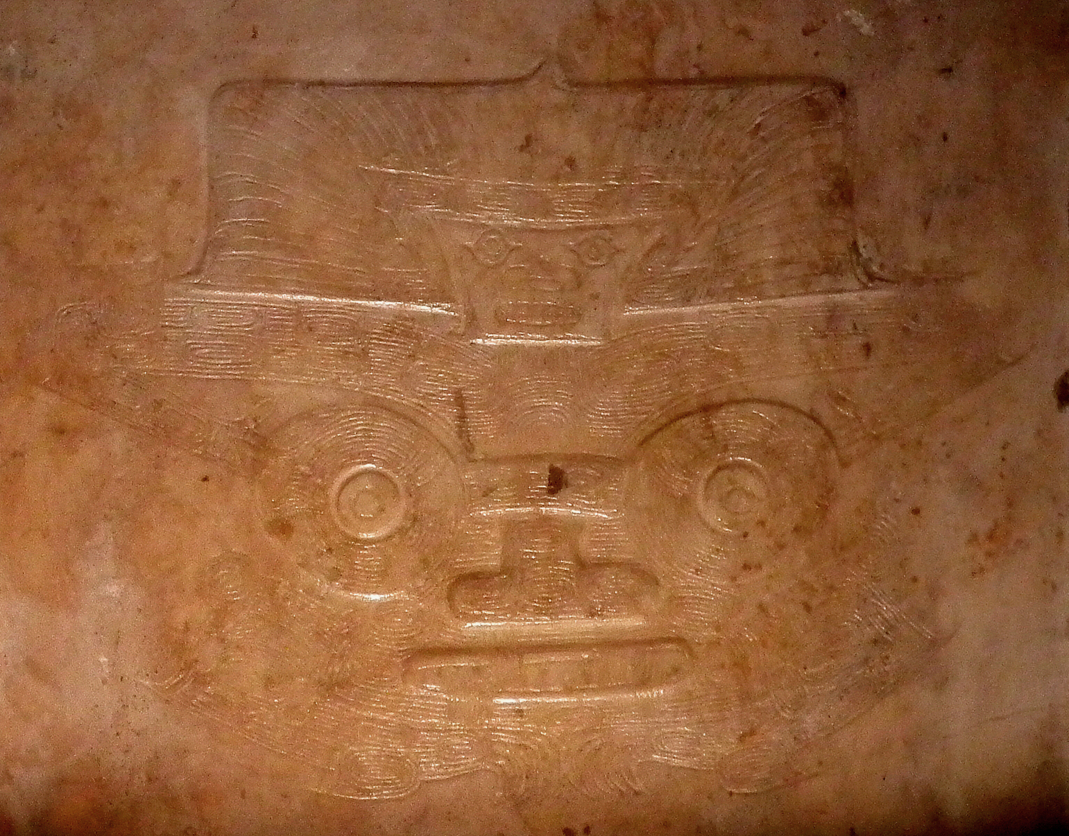 This cong was unearthed at Liangzhu, Hangzhou in 1986. Exhibited in Zhejiang Museum.